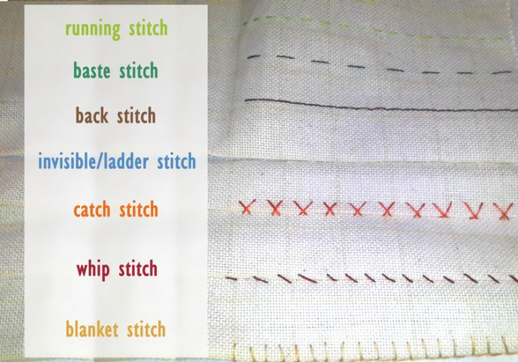 basic hand sewing stitches sampler on Aida cloth. Originally taken for Stitches shown: 1. running stitch 2. baste stitch 3. backstitch 4. invisible stitch / ladder stitch 5. catch stitch 6. whip stitch 7. blanket stitch